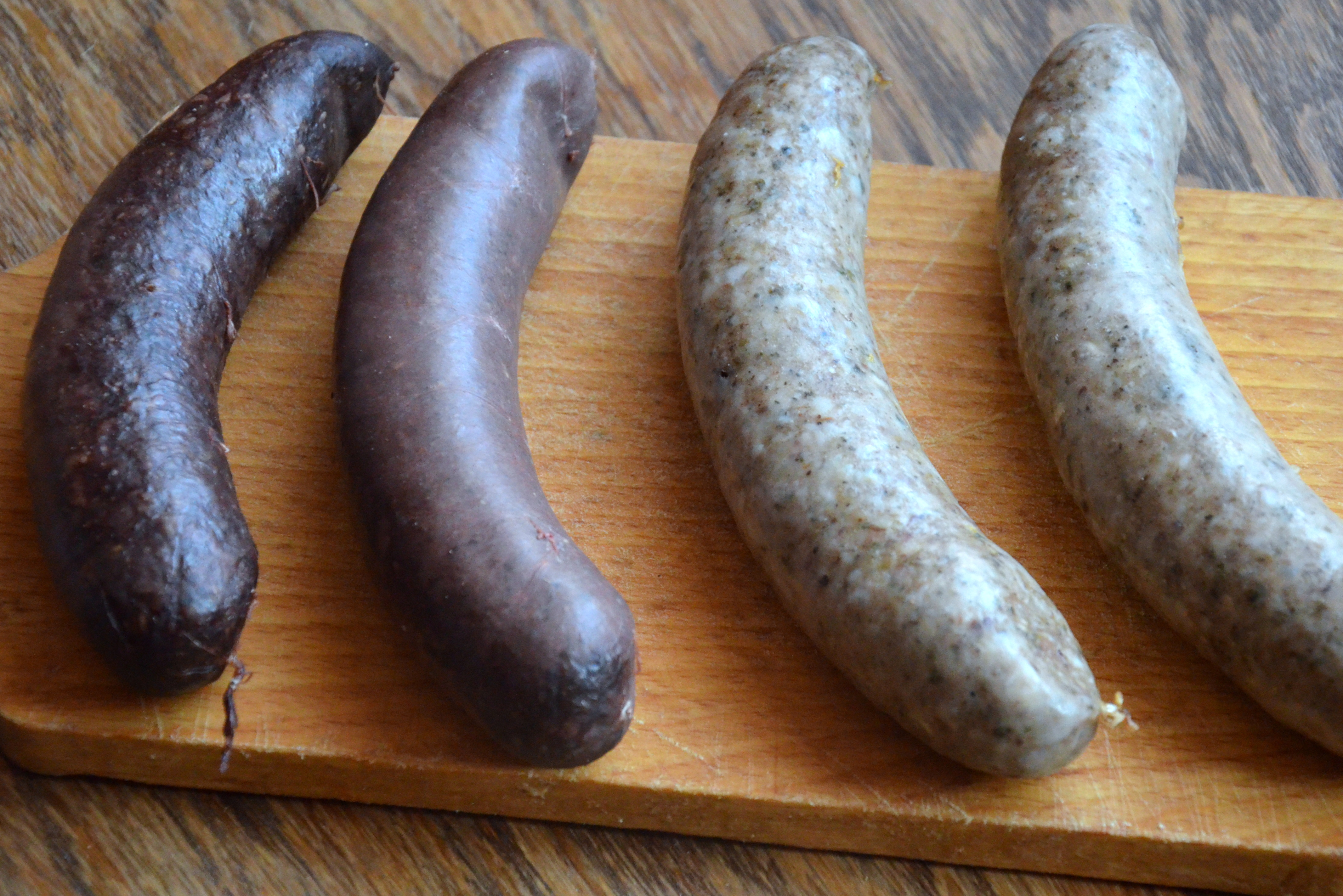 Black pudding of Silesia